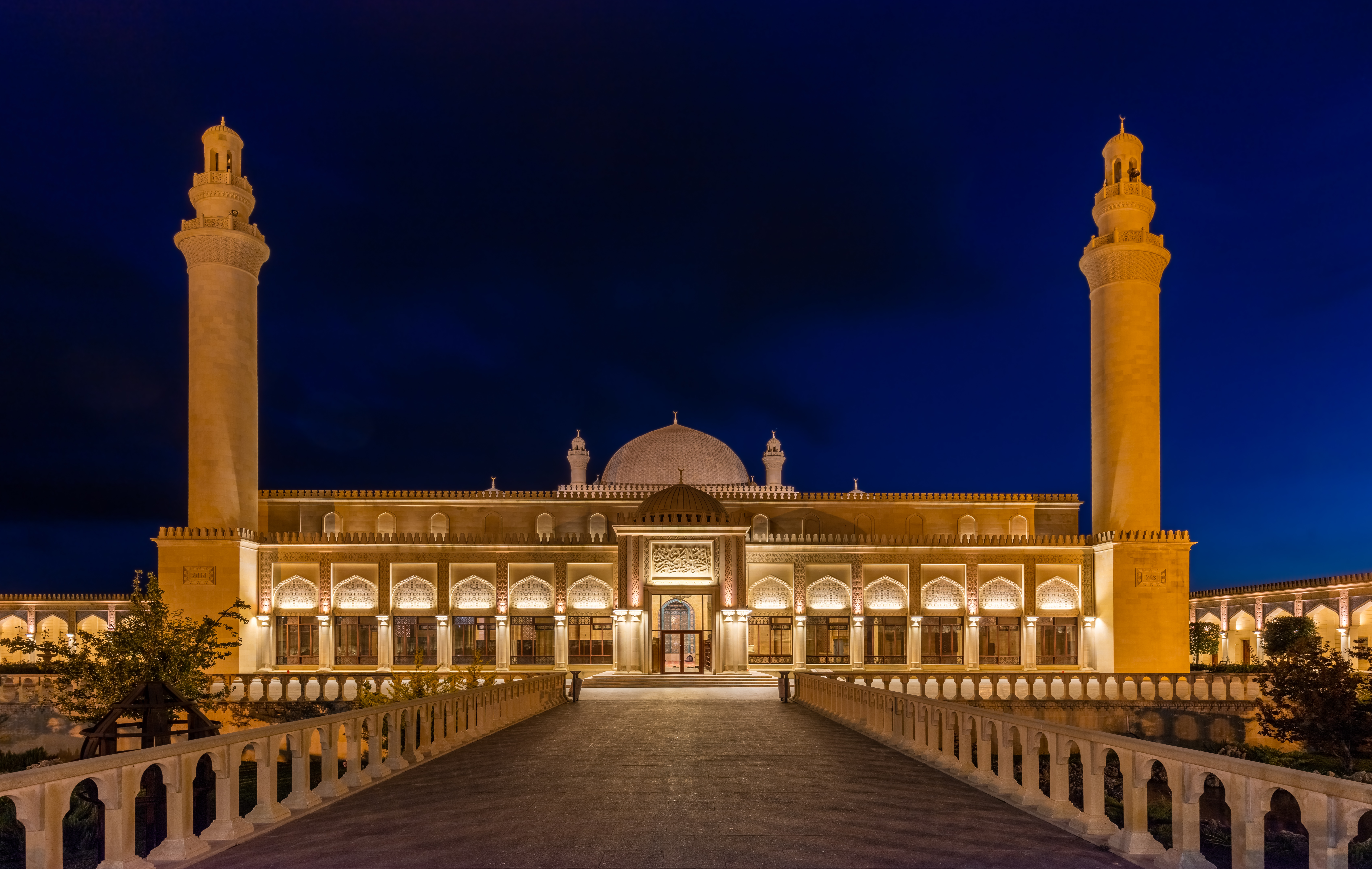 Blue-hour view view of the Juma (Friday) Mosque, Shamakhi, Azerbaijan. This mosque, built in 743, is considered the first one in the Caucasus after the Friday mosque of Derbent (constructed in 734). It was built during the governance period of Caliphate's vicar in the Caucasus and Dagestan. The mosque underwent numerous damages due to plunderings, earthquakes and wars and was lately reconstructed in 2009.